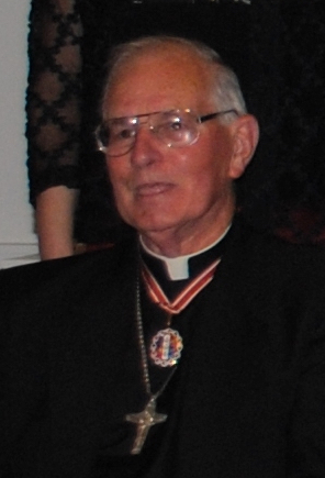 His Eminence Cardinal Tom Williams at the Order of New Zealand Dinner at Government House in Wellington on 12 August 2011.